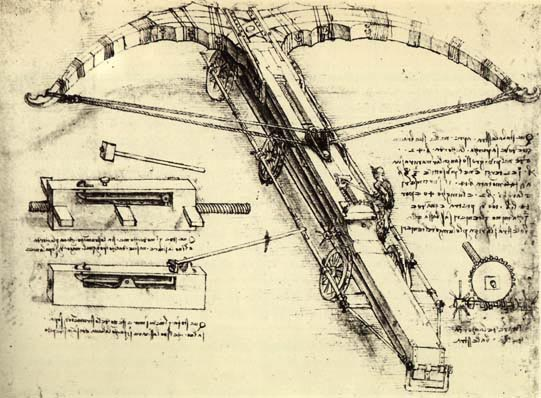 Crossbow, Europe, 1200 - wood and iron